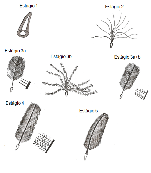 Modelo Evolutivo de Penas